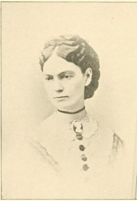 Margaret Cecelia Stewart